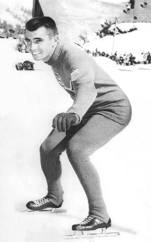 1960 Winter Olympics Speed Skater Ross B Zucco Press Photo